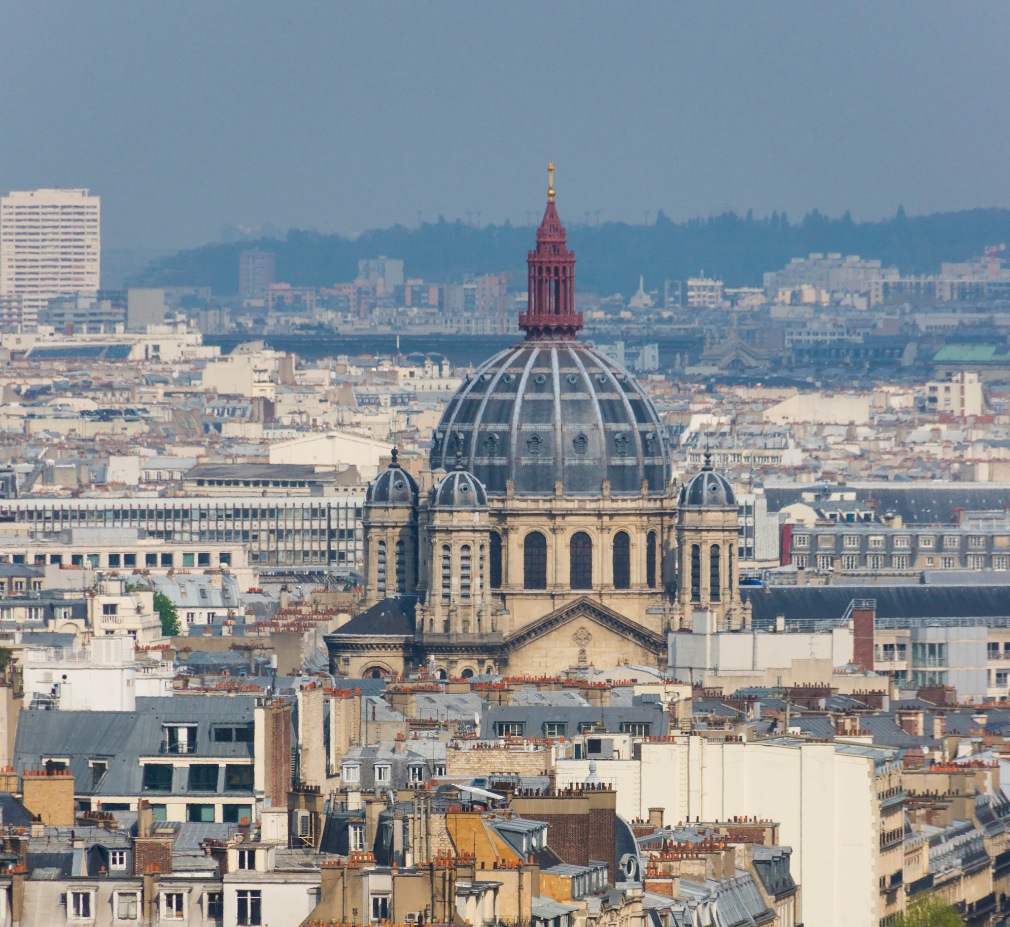 Roofs of Paris, dome and pinnacles of church Saint-Augustin, view from Arc de Triomphe.